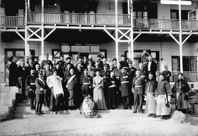 Members of German colonial "Protection" forces visiting Chou Fu, the governor of Qingdao. Factual corrections and alternative descriptions are encouraged separately from the original description. Additionally errors can be reported at this page to inform the Bundesarchiv. Original historic description: Schutztruppe Kiautschou 1903: Besuch Gouverneur Chou Fu in Tsingtau